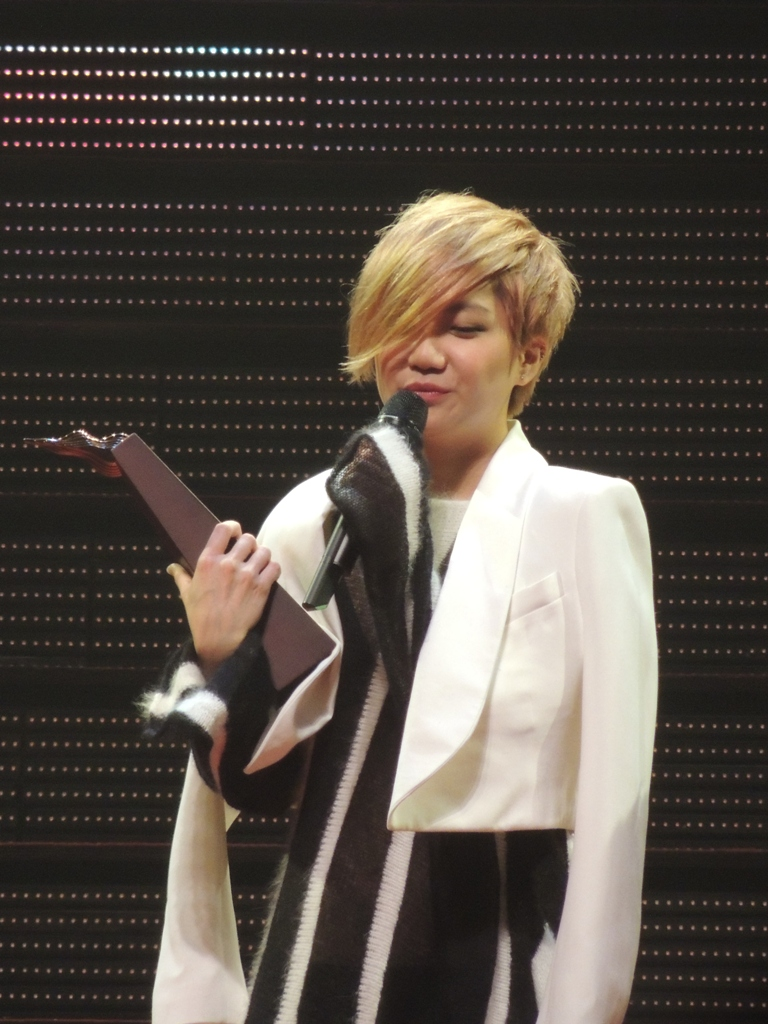 Ultimate Song Chart Awards 2013